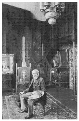 Portrait of Alexei Harlamov (Photograph)